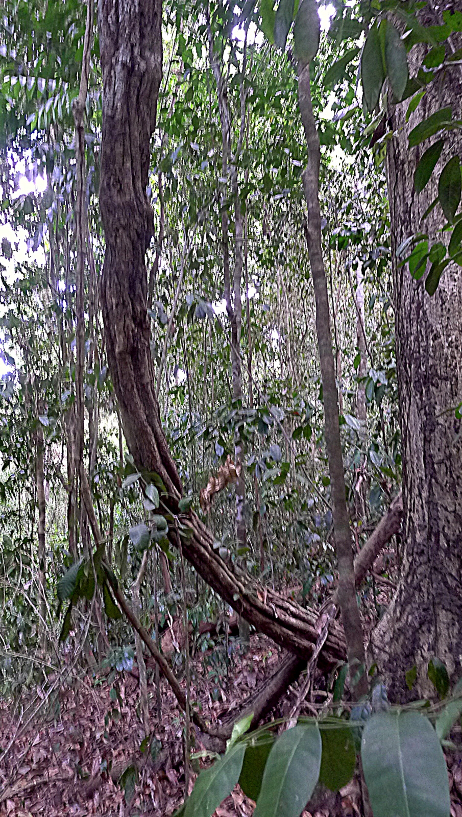 Mezia sp., Malpighiaceae, Atlantic forest, northeastern Bahia, Brazil